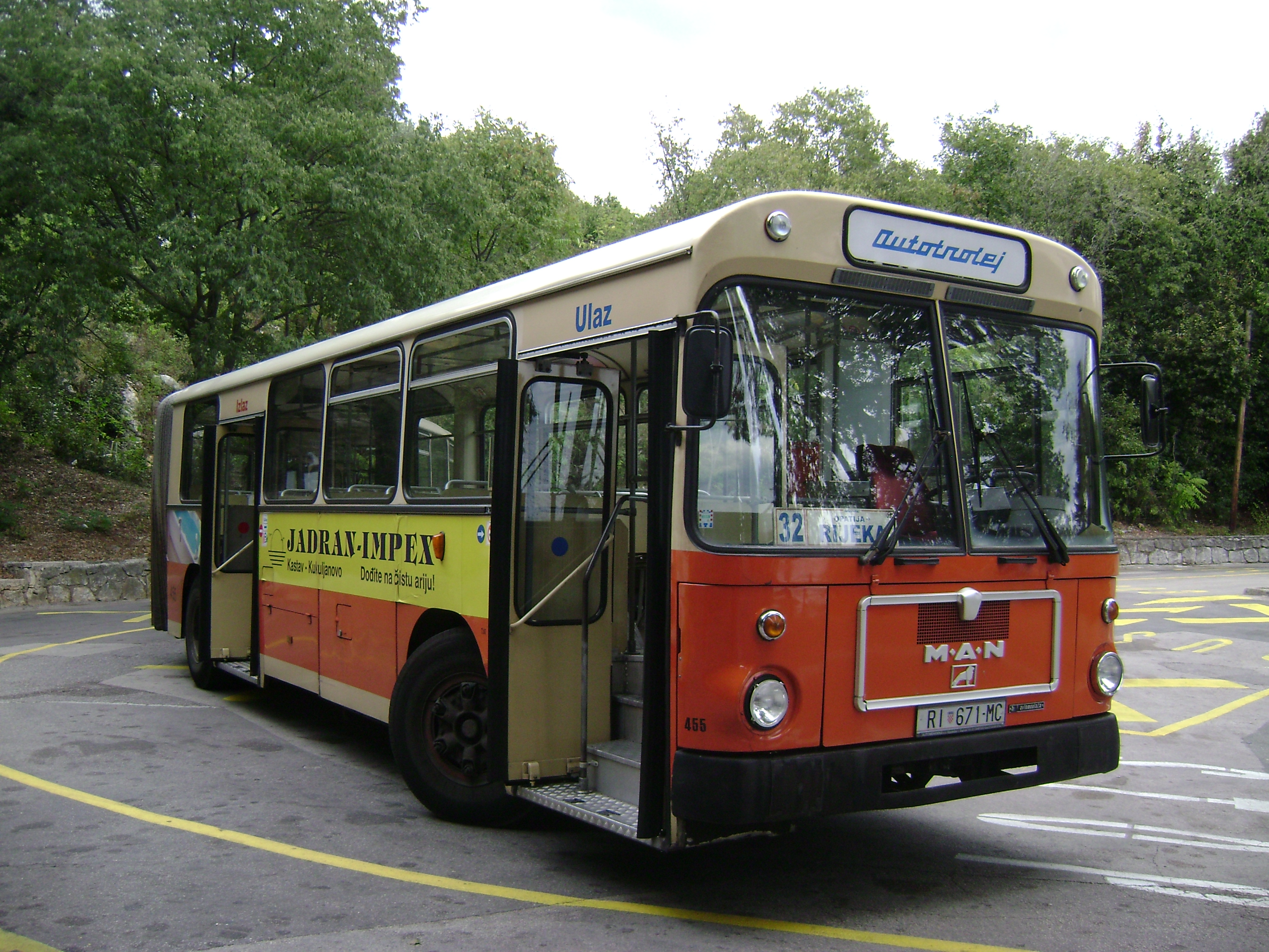 MAN SG220 / Avtomontaža city bus in Rijeka, Croatia. Built 1983.